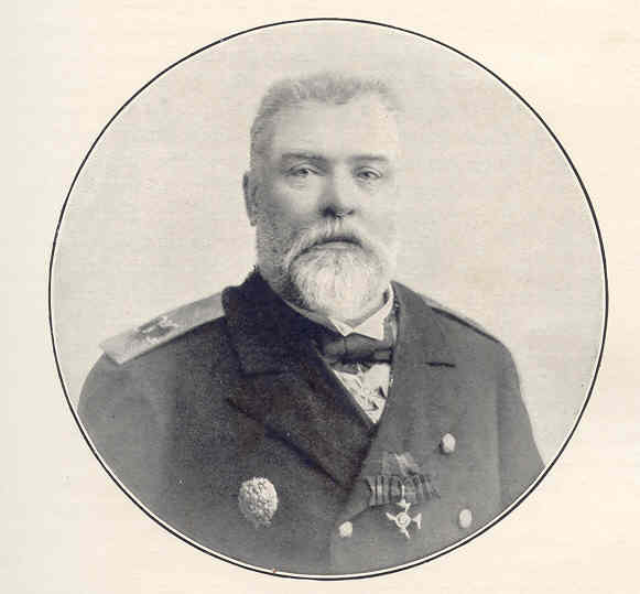 History of the Russo-Japanese War